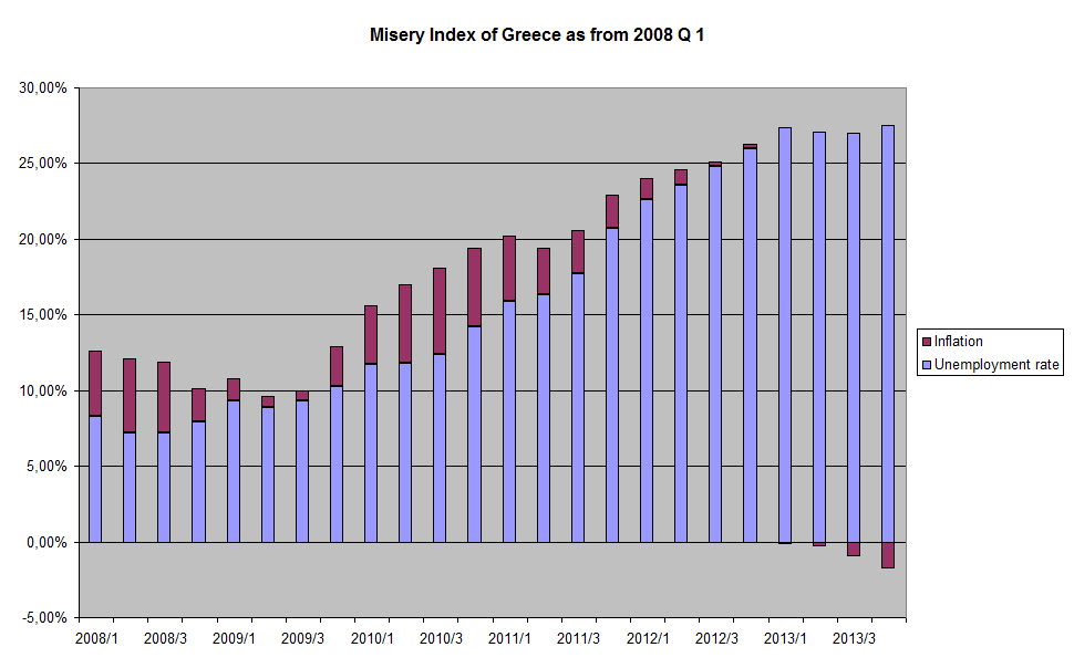 Misery index of Greece from 2008. Source: Greek statistical office.